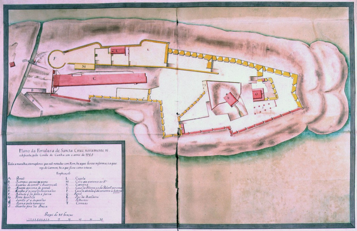 Plan of Fort Santa Cruz again rebuilt by Count da Cunha in the year 1765